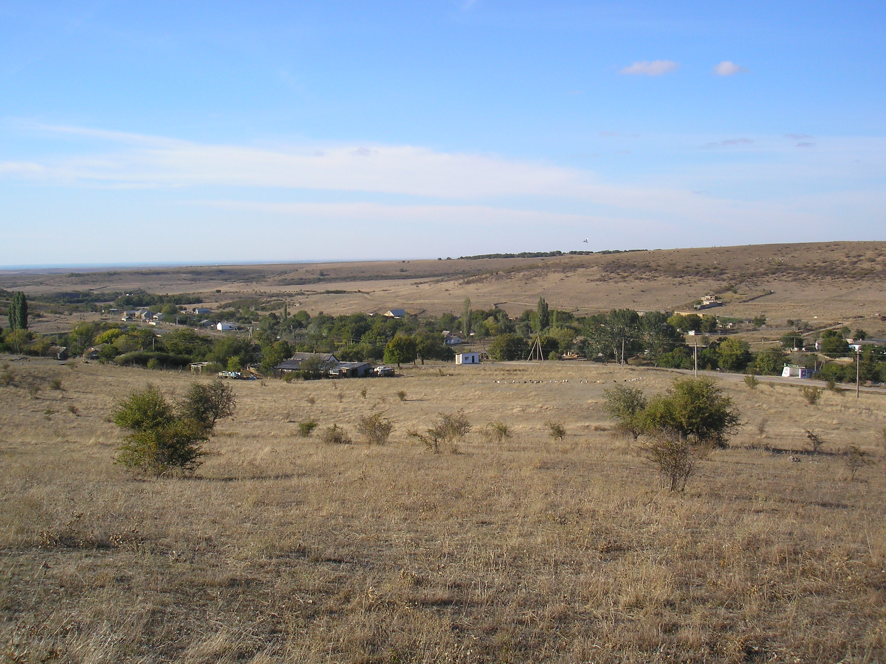 Village Repino, Bakhchisaray district, Crimea